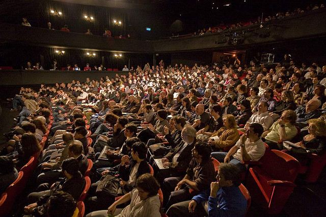 Participants fill the theater at Wikimania 2009 in Buenos Aires.